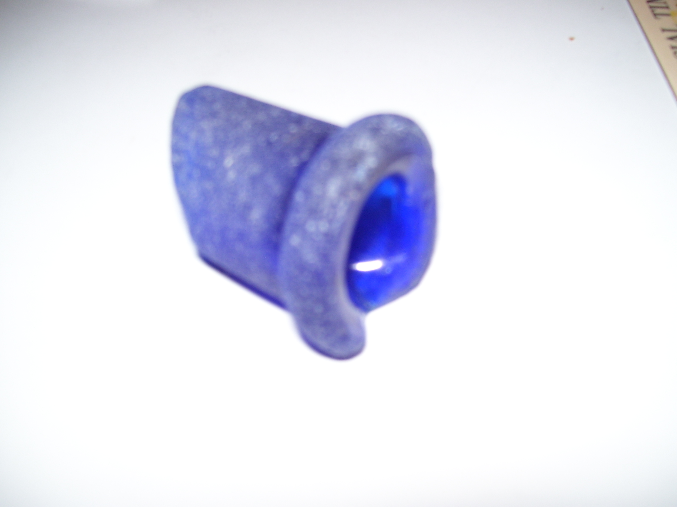 This is my 2009 photo of my cobalt blue sea glass bottle top.